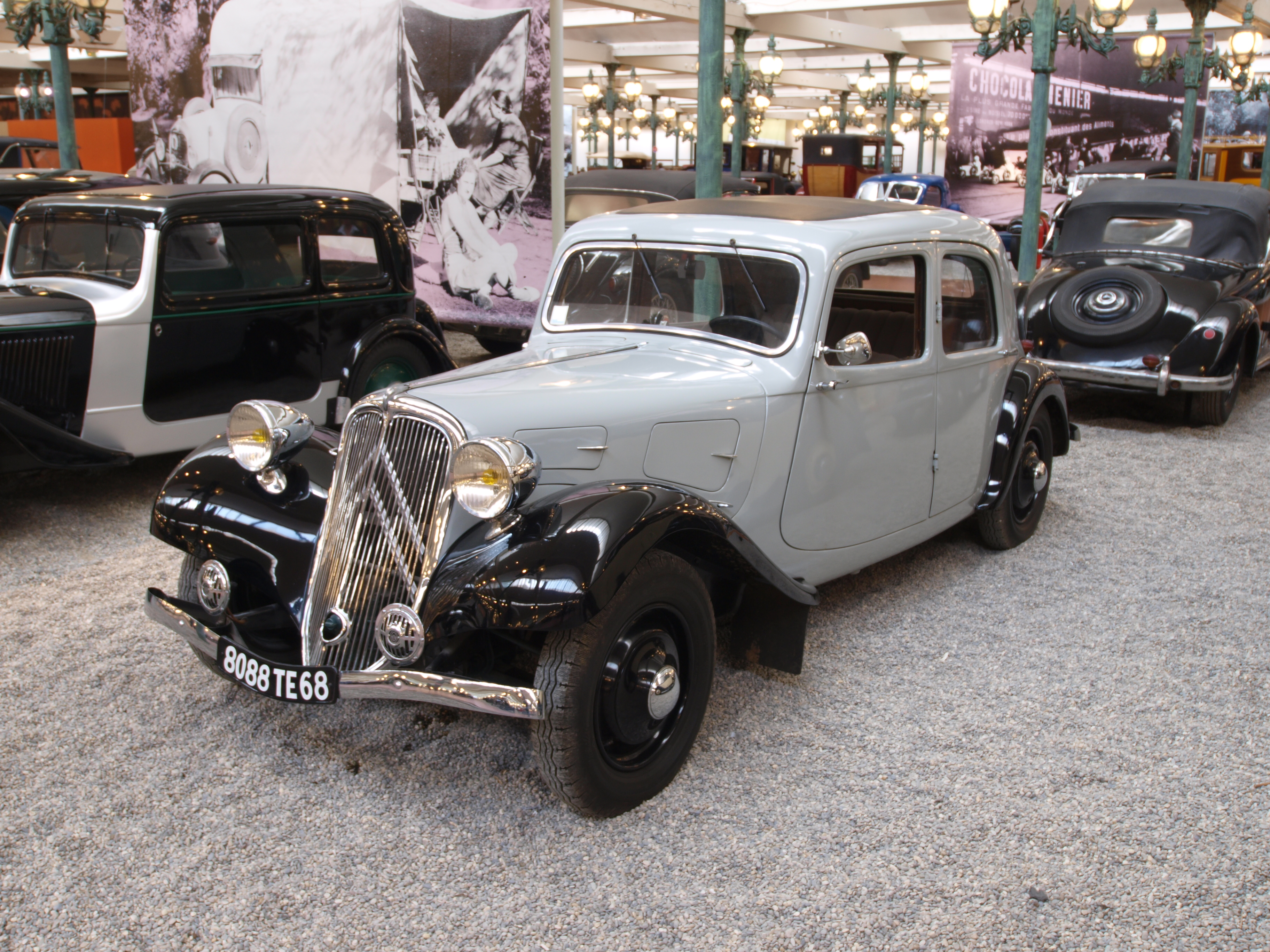 Photographed at the Cité de l’Automobile, France. OLYMPUS DIGITAL CAMERA